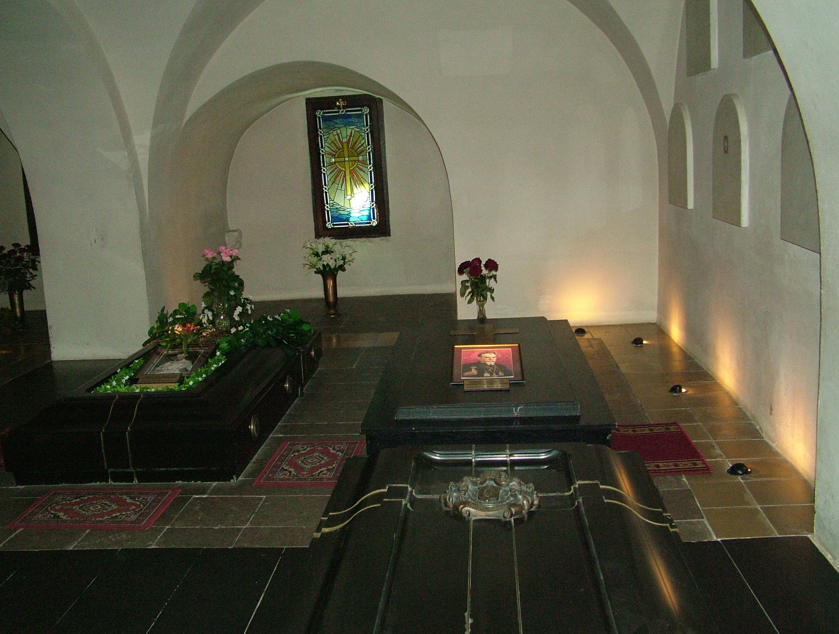 Grave of Andrey Sheptytsky